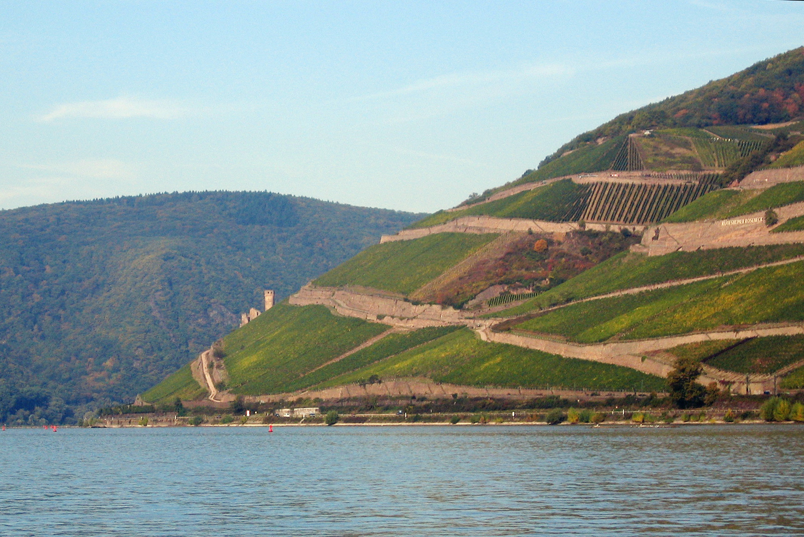 Vineyards at the bend of river Rhine, west of Rüdesheim in Rheingau, Germany. Vineyard sites Berg Schlossberg at lower left, and Berg Roseneck at top right, with the white letters "Rüdesheimer Roseneck". The castle Ehrenfels ruin, just beyond the bend, is also visible.